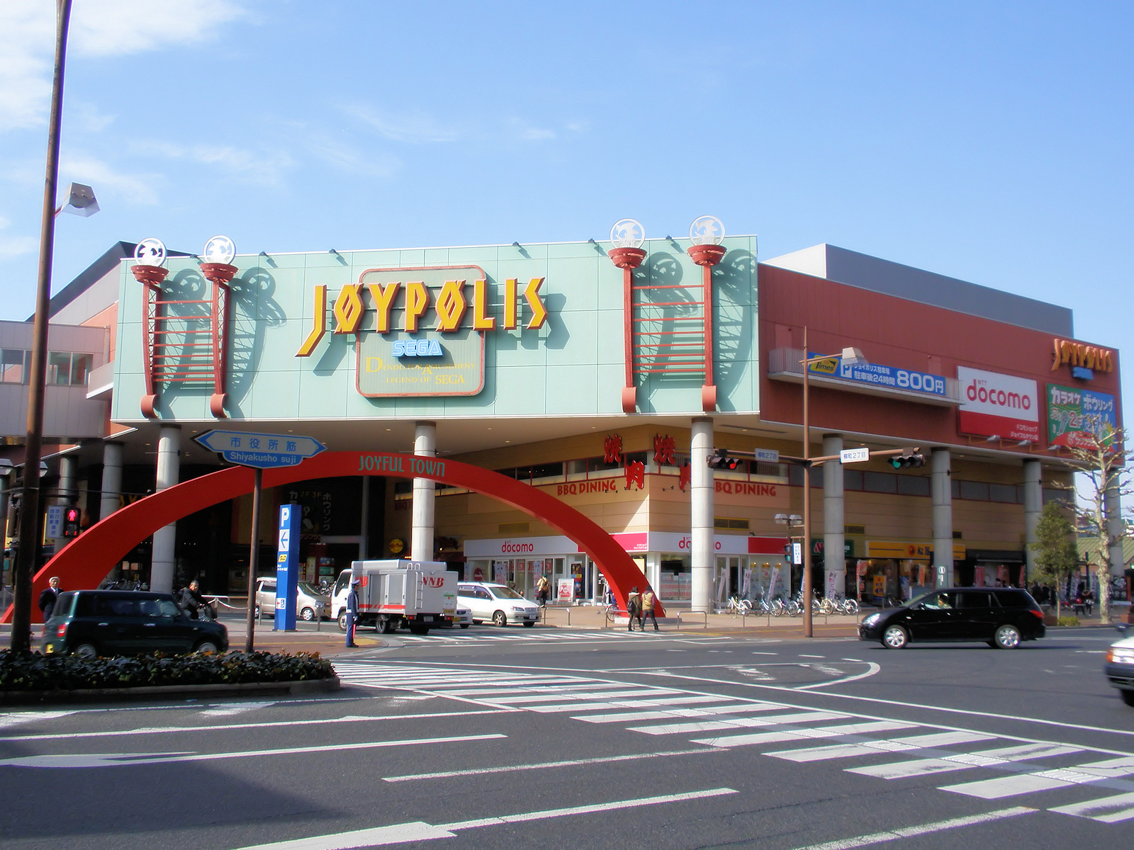 Okayama Joypolis, Kita-ku, Okayama.